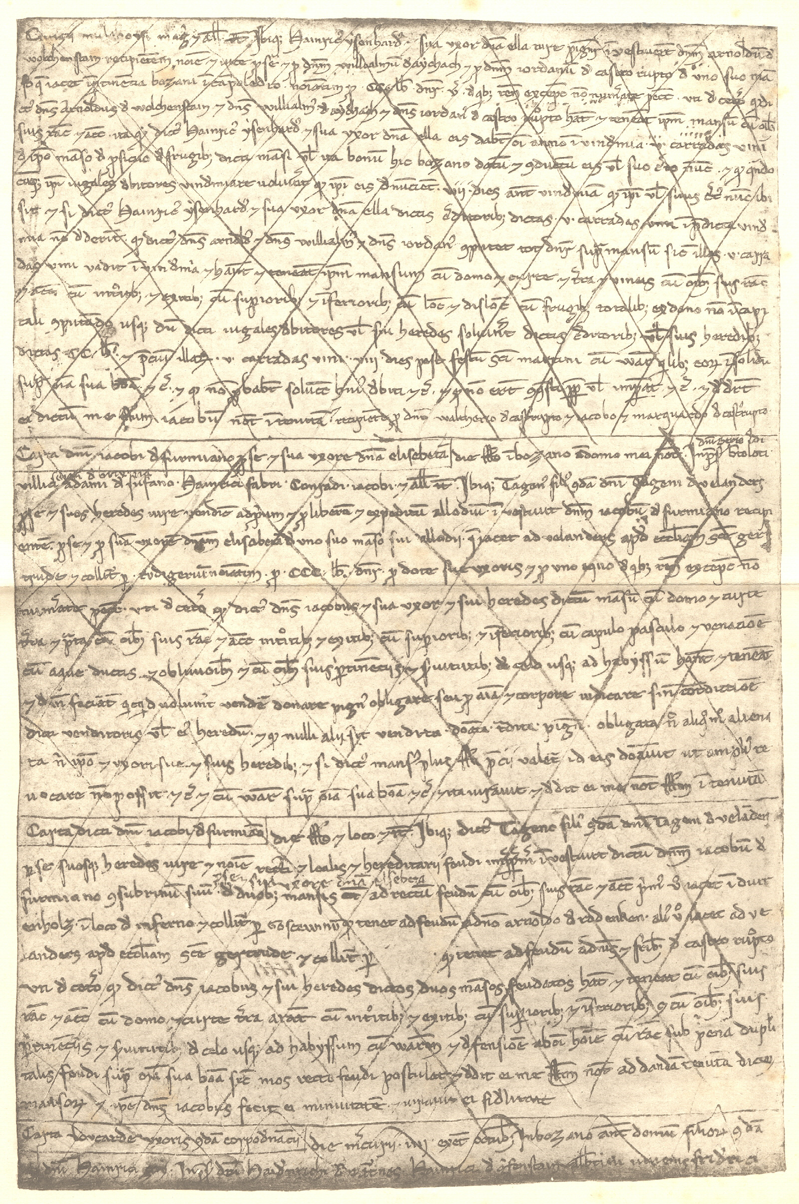 Notarial deed from the South Tyrolean notary Jakob Haas (Bozen-Bolzano), first half of 13th century